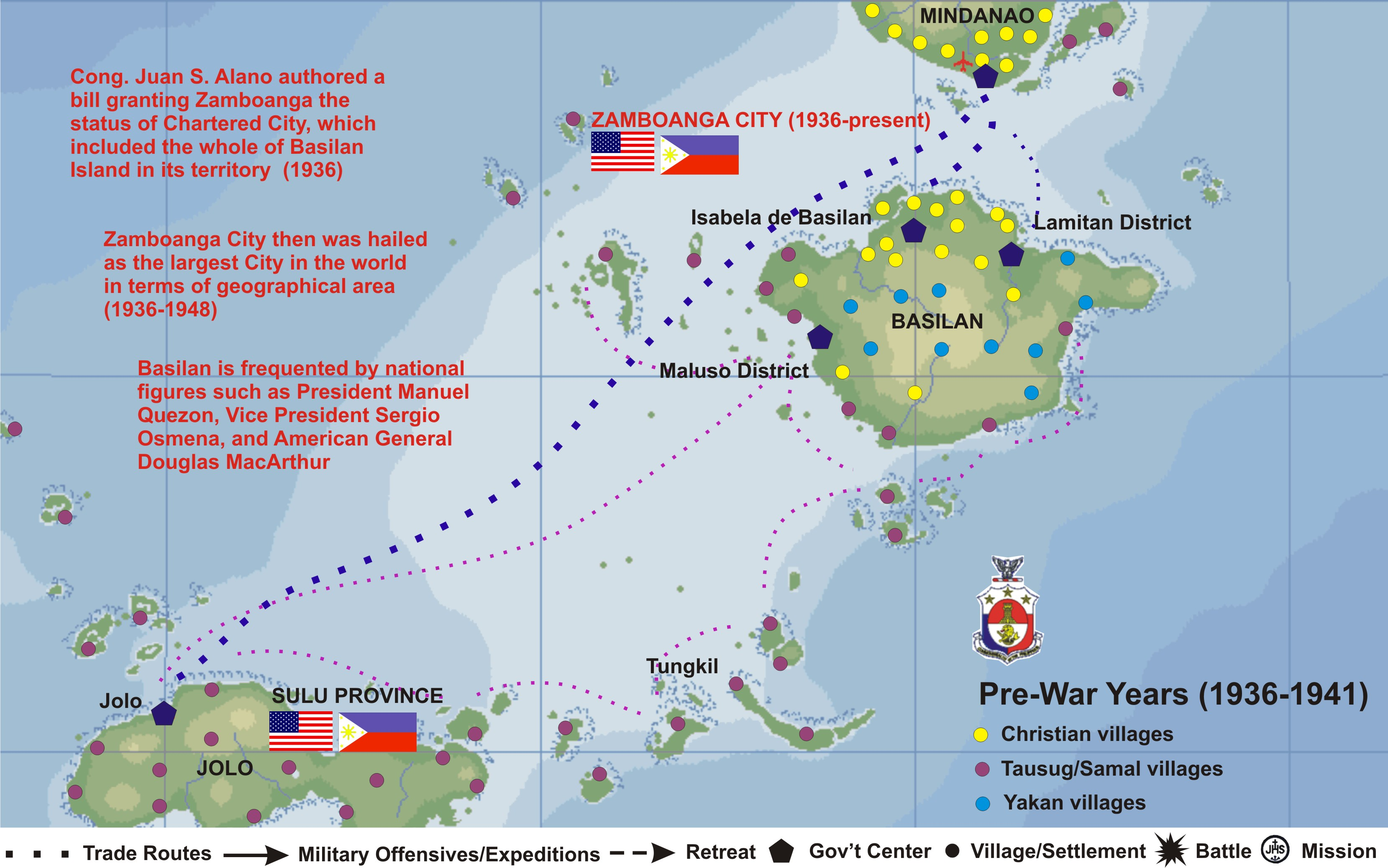 Basilan_Expanded_1936-1941